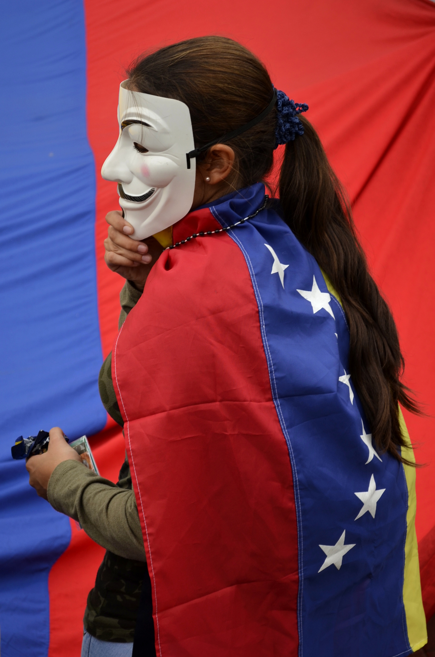 Protester in Venezuela wearing a Guy Fawkes mask.